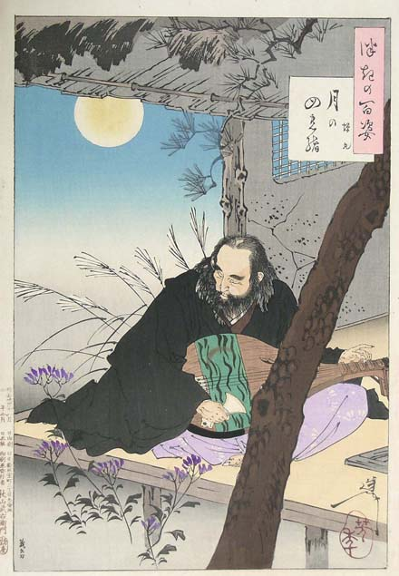 The moon’s four strings (Tsuki no yotsu no o)